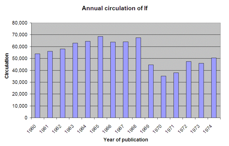 Paid circulation figures for If from 1960 to 1974. Source data comes from the circulation statements each year, as follows: YearCirculationMonth in which recordedPage 196054000March 1961110 196156000March 196257 196257900March 196321 196363000March 196435 196464500January 196577 196568480March 1966159 196663930March 196736 196764100January 196875 196867400January 1969158 196944548January 197033 197035230Jan-Feb 1971192 197137974February 1972119 197247525February 1973173 197345994February 1974176 197450355February 1975 (Galaxy)158 Note the 1974 data was printed in the February 1975 issue of Galaxy, as If had merged with Galaxy. Note also that the data does not necessarily come from a calendar year. The statements in the February 1973 and February 1974 issues, for example, were sworn on the 15 of September of the previous year. The circulation figures could take two or three months to come in, since it was necessary to wait for returns from news stands to know what the paid circulation was. Hence the information for the year marked 1972, above, may actually be for a twelve-month period from about July 1971 to June 1972.